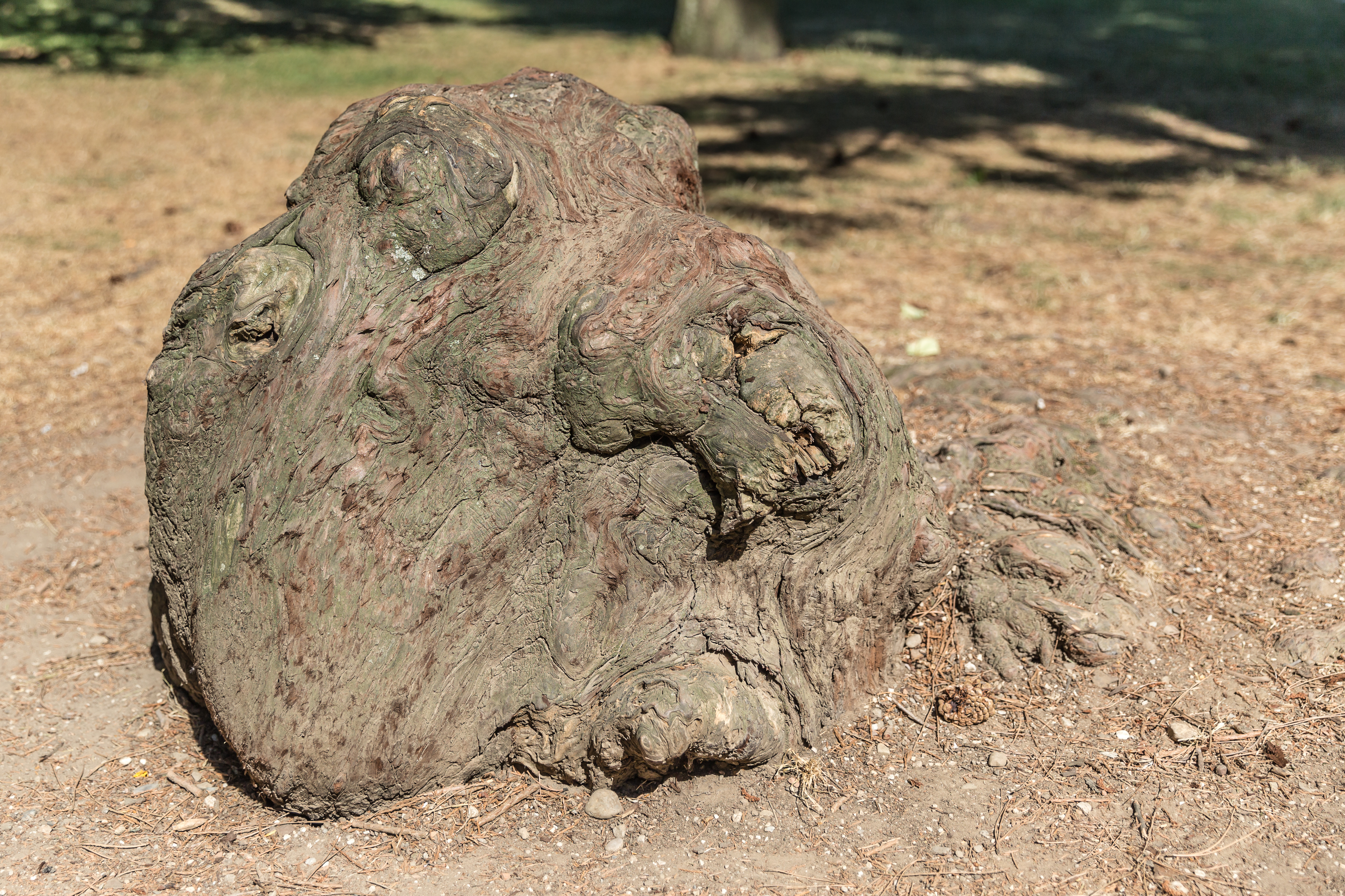 This root is a work of art created by nature in Annecy, France